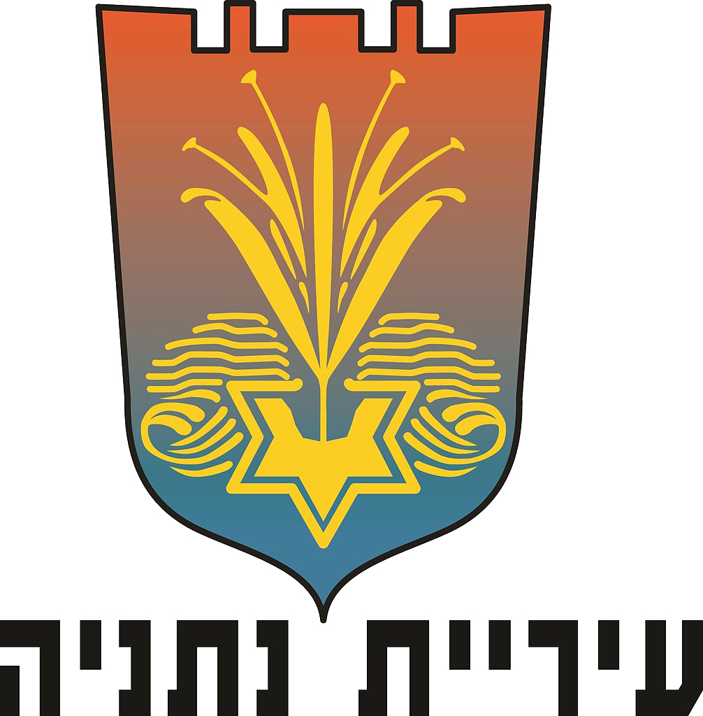 Coat of arms of the city of Netanya